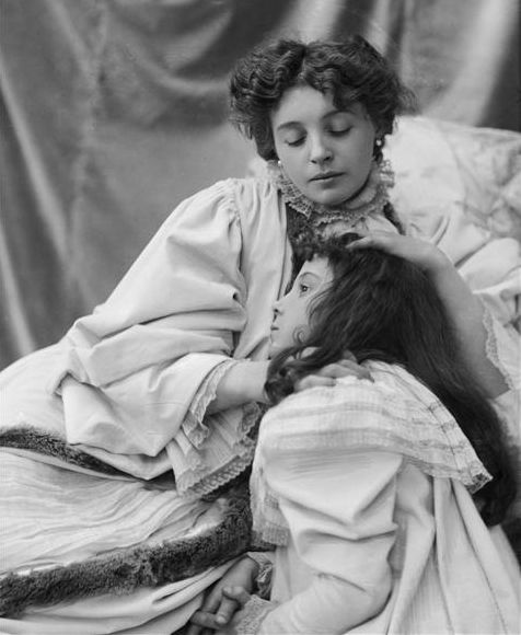 French actress Réjane and her daughter Germaine Porel in 1896